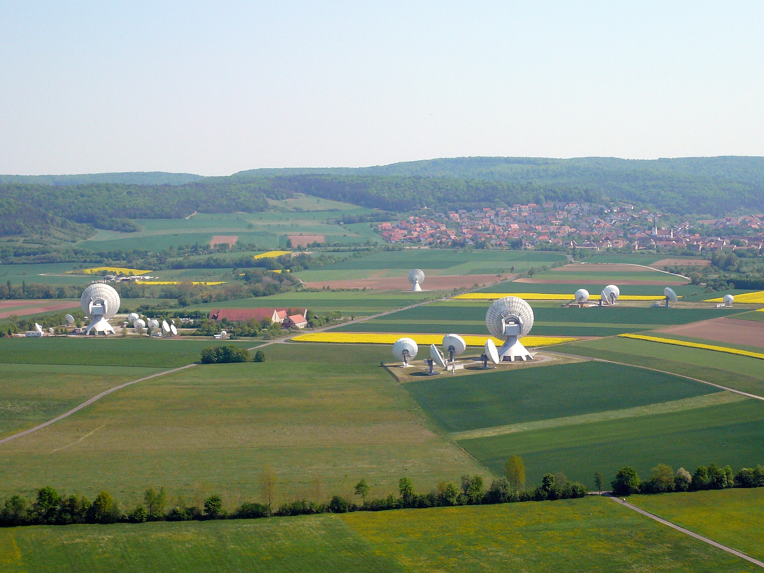 Satellite ground station Fuchsstadt, Germany, Taken from the mountain above